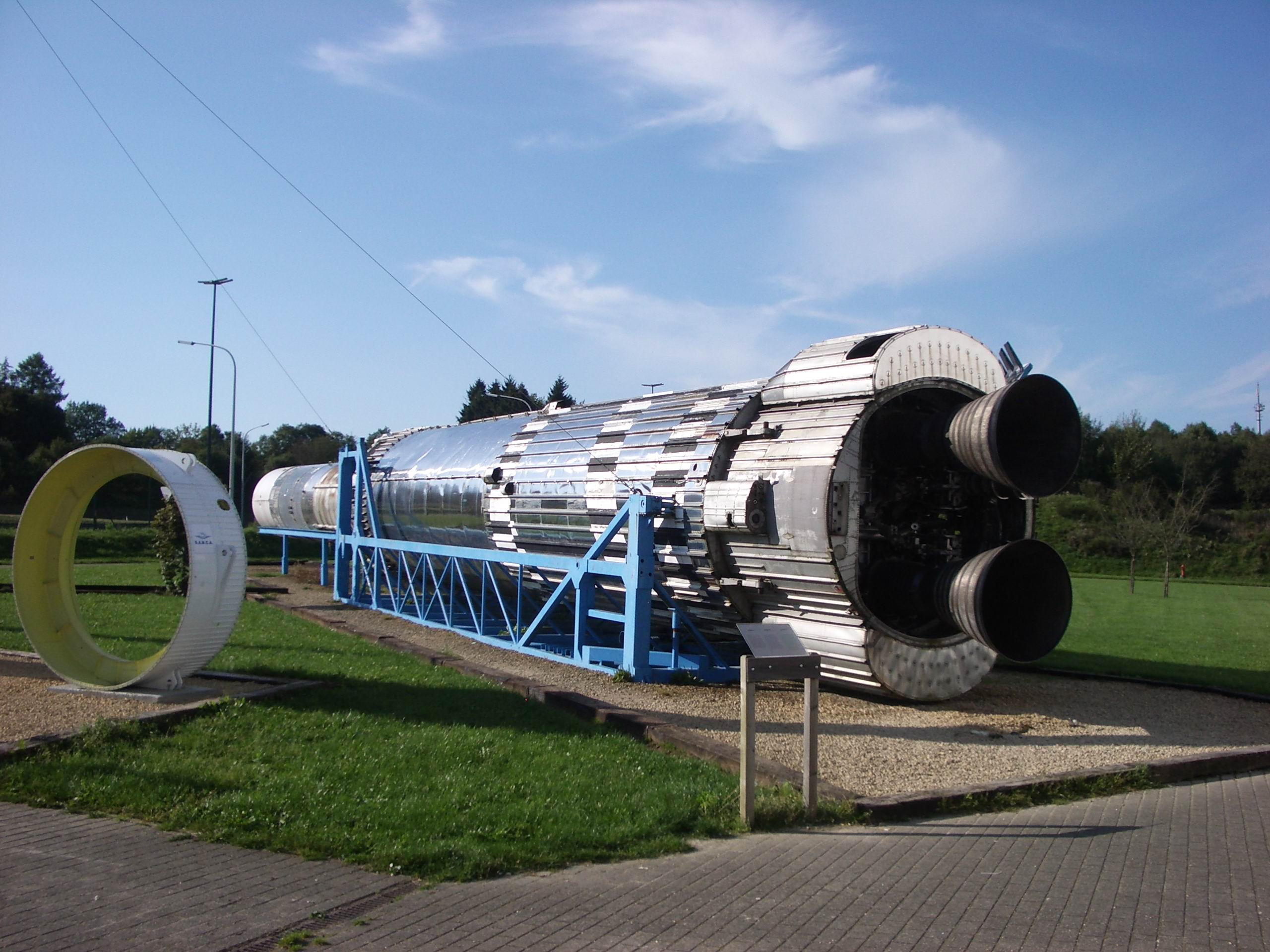 Europa II Rocket at Space Expo in Brussels in 2006.